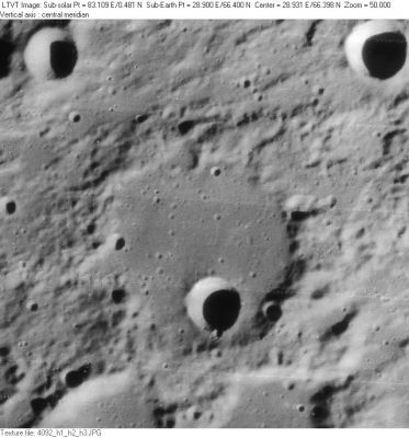 LO-IV-092H Moigno is in the center. On its floor is the 9-km shadowed circle of Moigno C. Also visible in this view are 9-km Neison A (upper left) and 11-km Arnold G. Partially visible along the bottom margin is the northern part of 23-km Moigno D (on the left), and a similarly-sized, but unnamed, crater to its east.